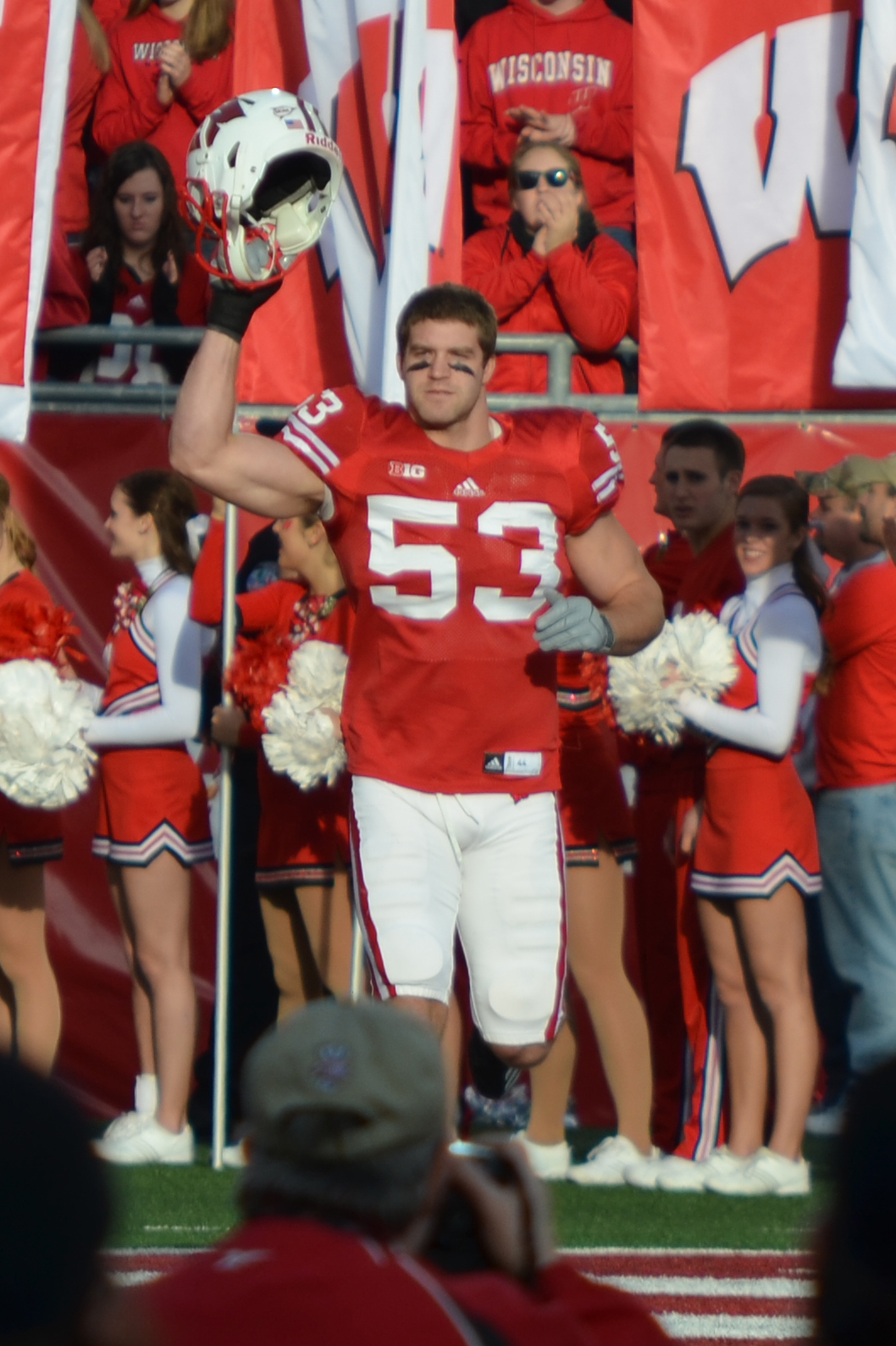 Mike Taylor's Senior Introductions vs Ohio State 11.17.12